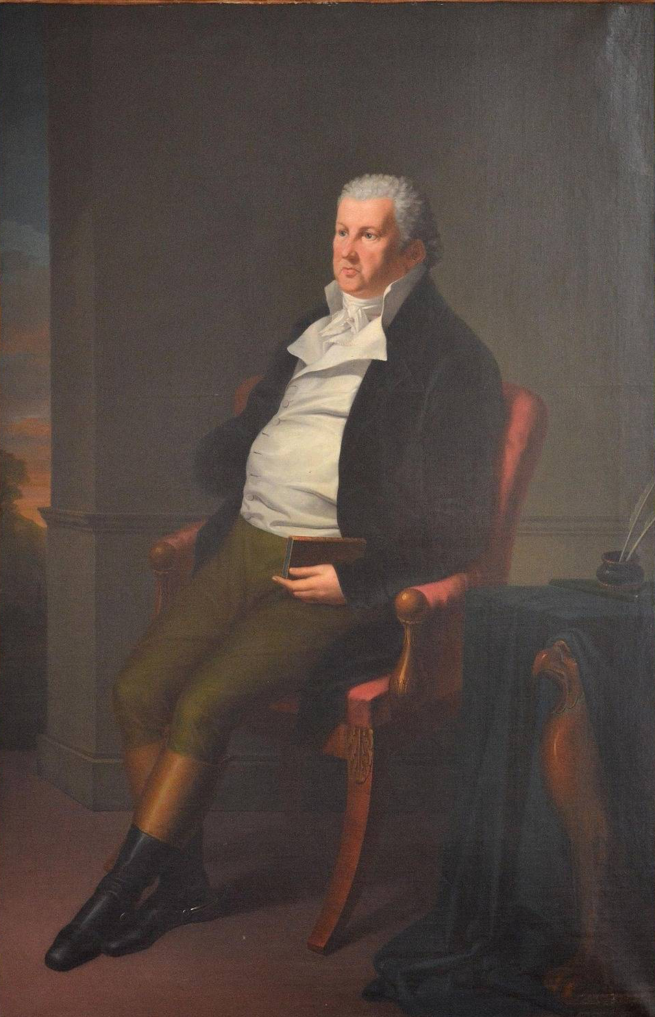 Painting of Aron Elias Seligmann (1747 - 1824), Johann Peter von Langer (1756-1824)